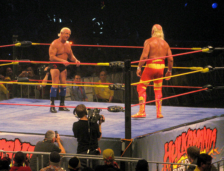 Hulkamania Tour @ Rod Laver Arena. Melbounre, AUS.